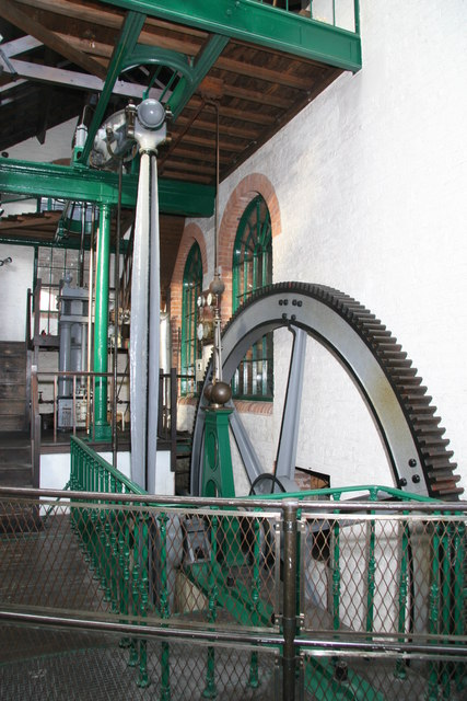 The Haydock Colliery beam engine. At the Museum of Science & Industry, Manchester. Single cylinder house-built beam engine of unknown vintage but probably around 1830-40. Installed at the colliery workshops c1860. Was acquired for eventual display at the museum but when acquired there were no immediate prospects of a home for it and it was stored for many years. Although this one is not known to have worked in the textile industry, it is typical of the early textile mill beam engines.